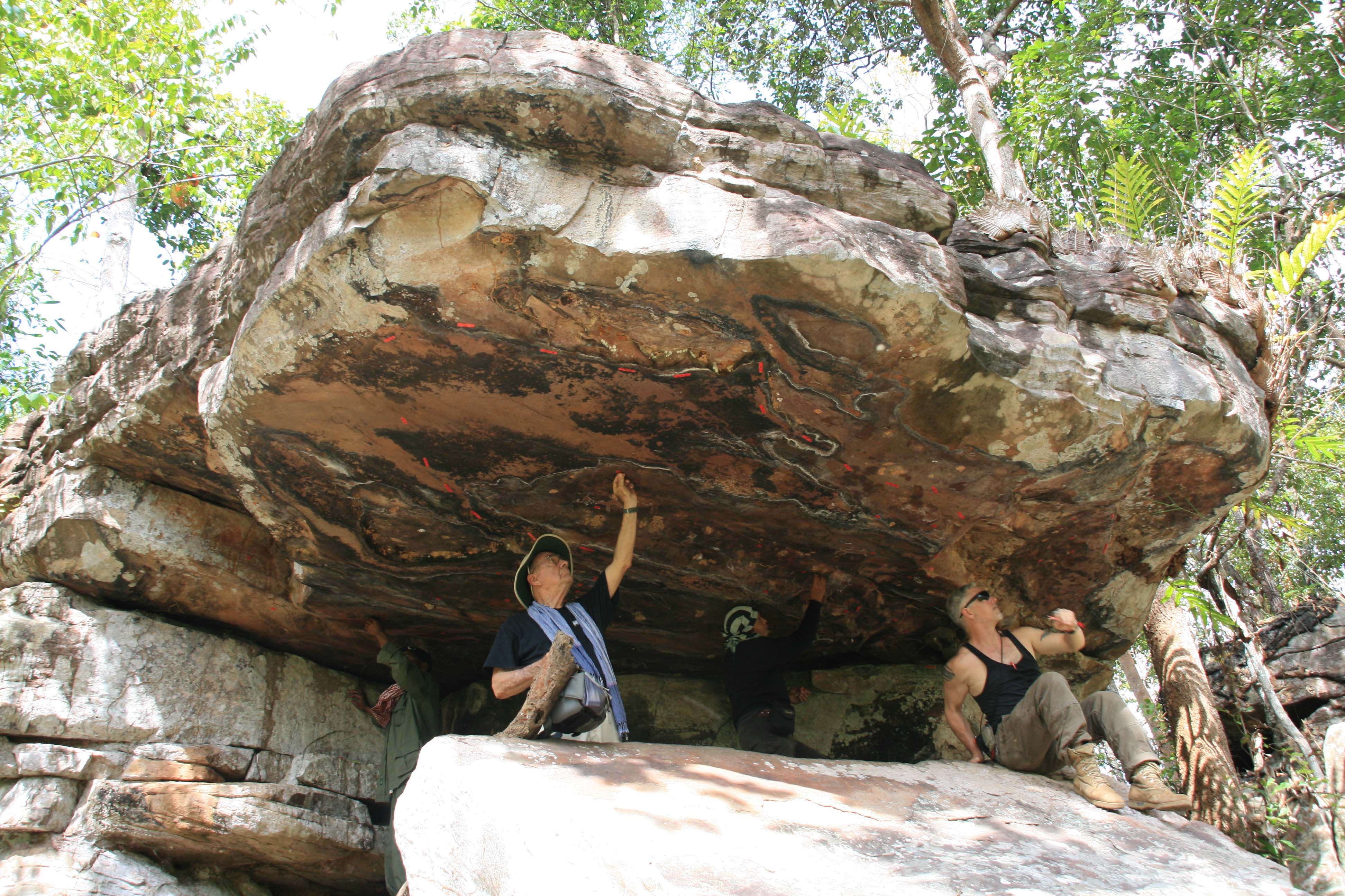 Tep Sokha, P. Bion Griffin and D. Kyle Latinis recording ancient rock art paintings at Kanam in 2015: 222 images were noted (mostly elephants, deer, wild cow/buffalo, andhuman riders on elephants, and unidentifiable mammals.